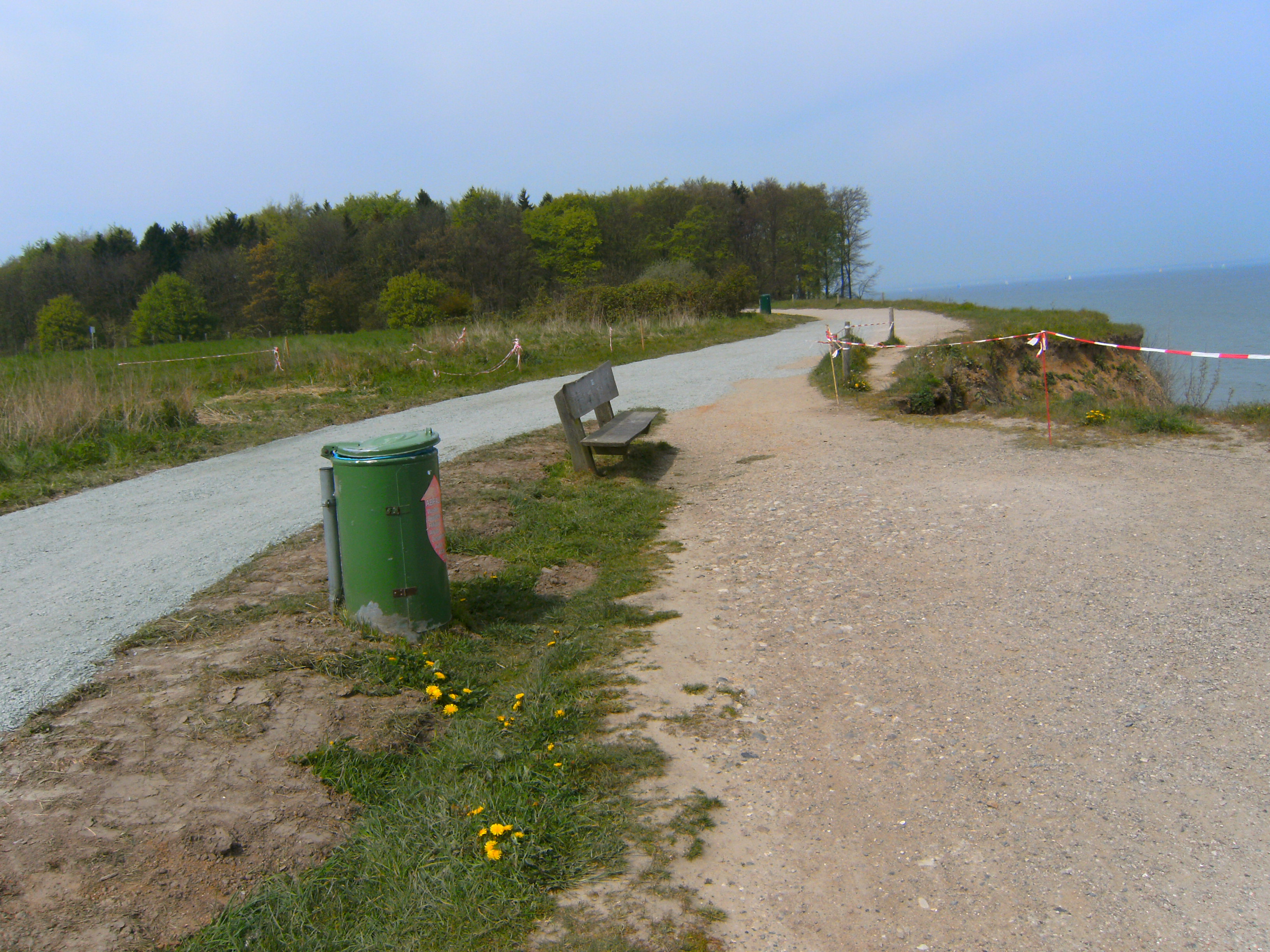 Brodtener Ufer, Germany: Footpath and biking path between Travemünde and Niendorf. New track after erosion.